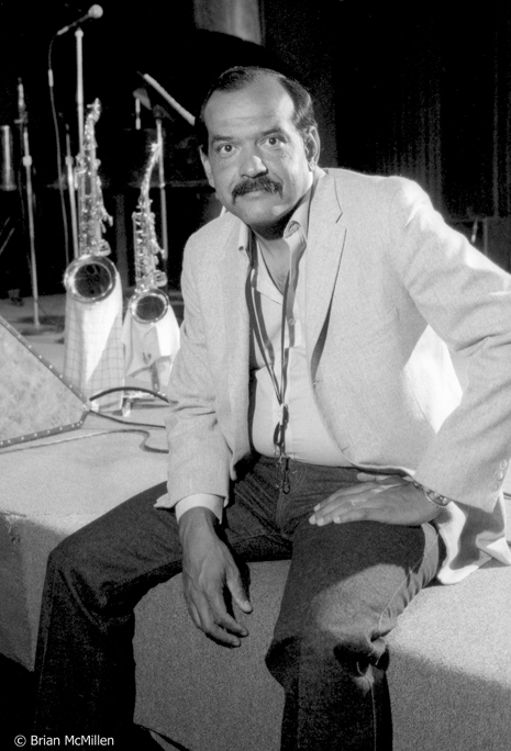 Ernie Watts at Great American Music Hall, San Francisco CA 8/7/87With Charlie Haden's Quartet West including Alan Broadbent and Billy Higgins / Photo: Brian McMillen / /